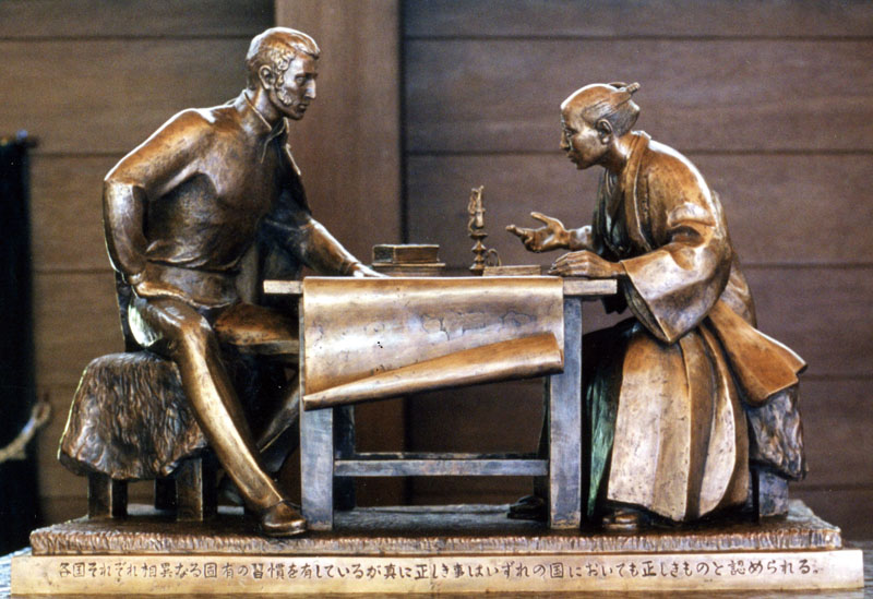 Takataya Kahi and Petr Ricord in Petropavlovsk-Kamchatsky